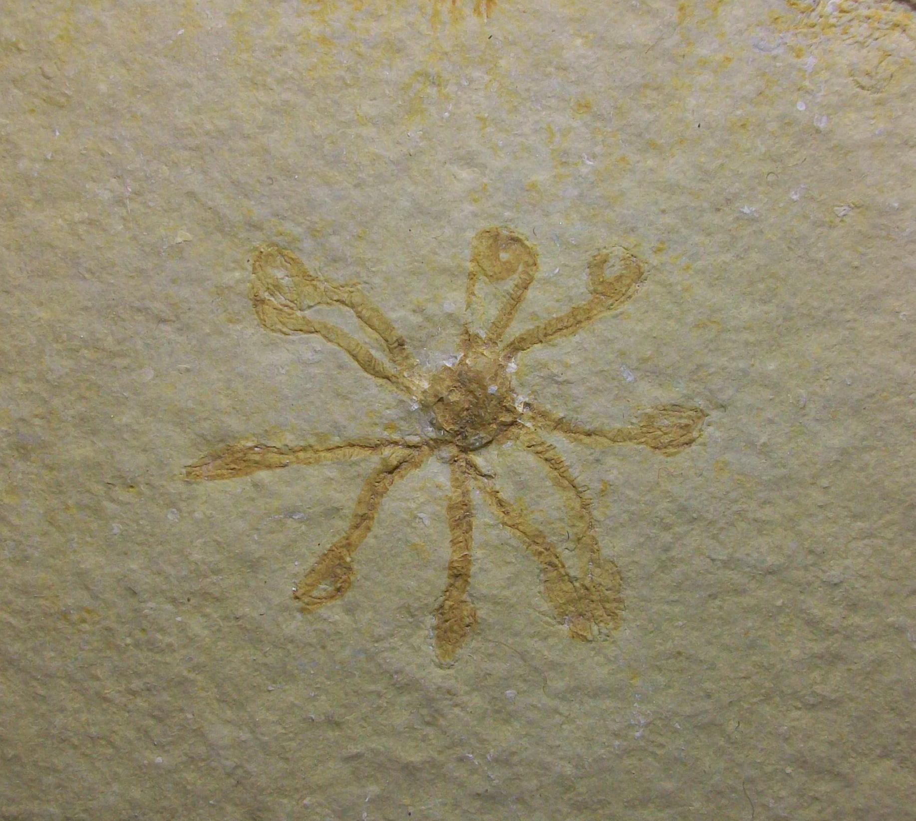 Fossil Saccocoma alpina.